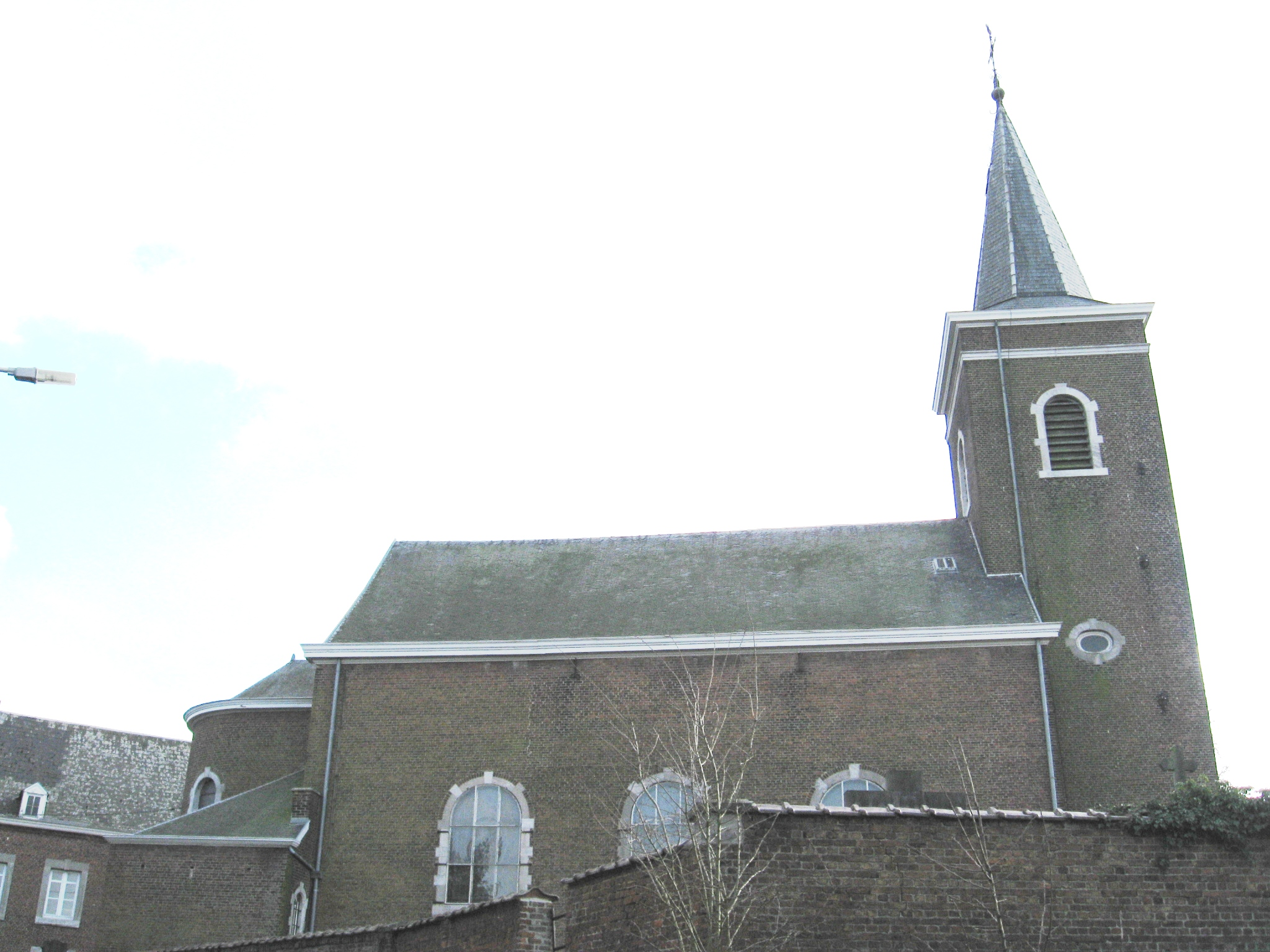 Church of Saint Lambert in Villers-Saint-Siméon, Juprelle, Liège, Belgium